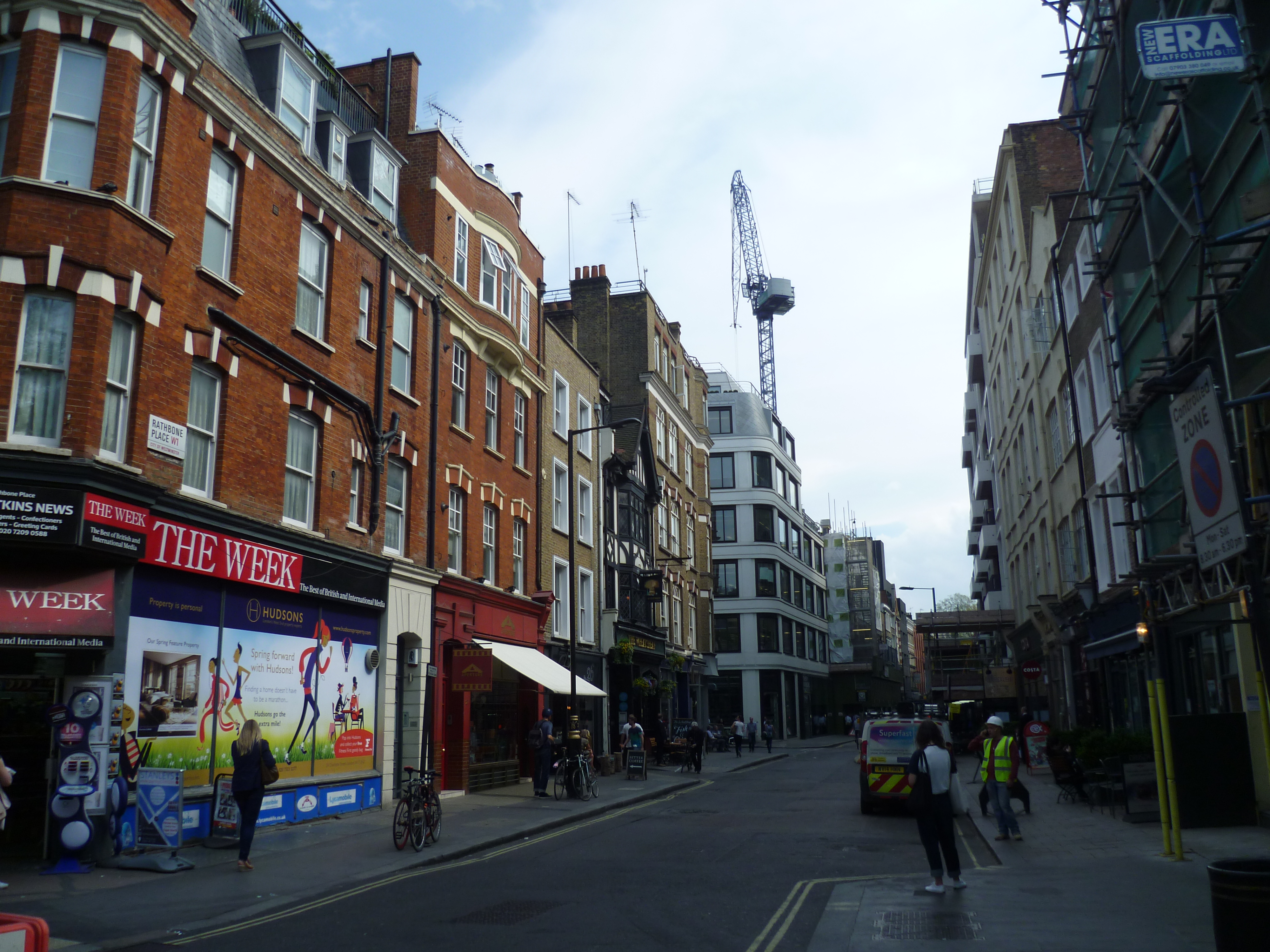 London